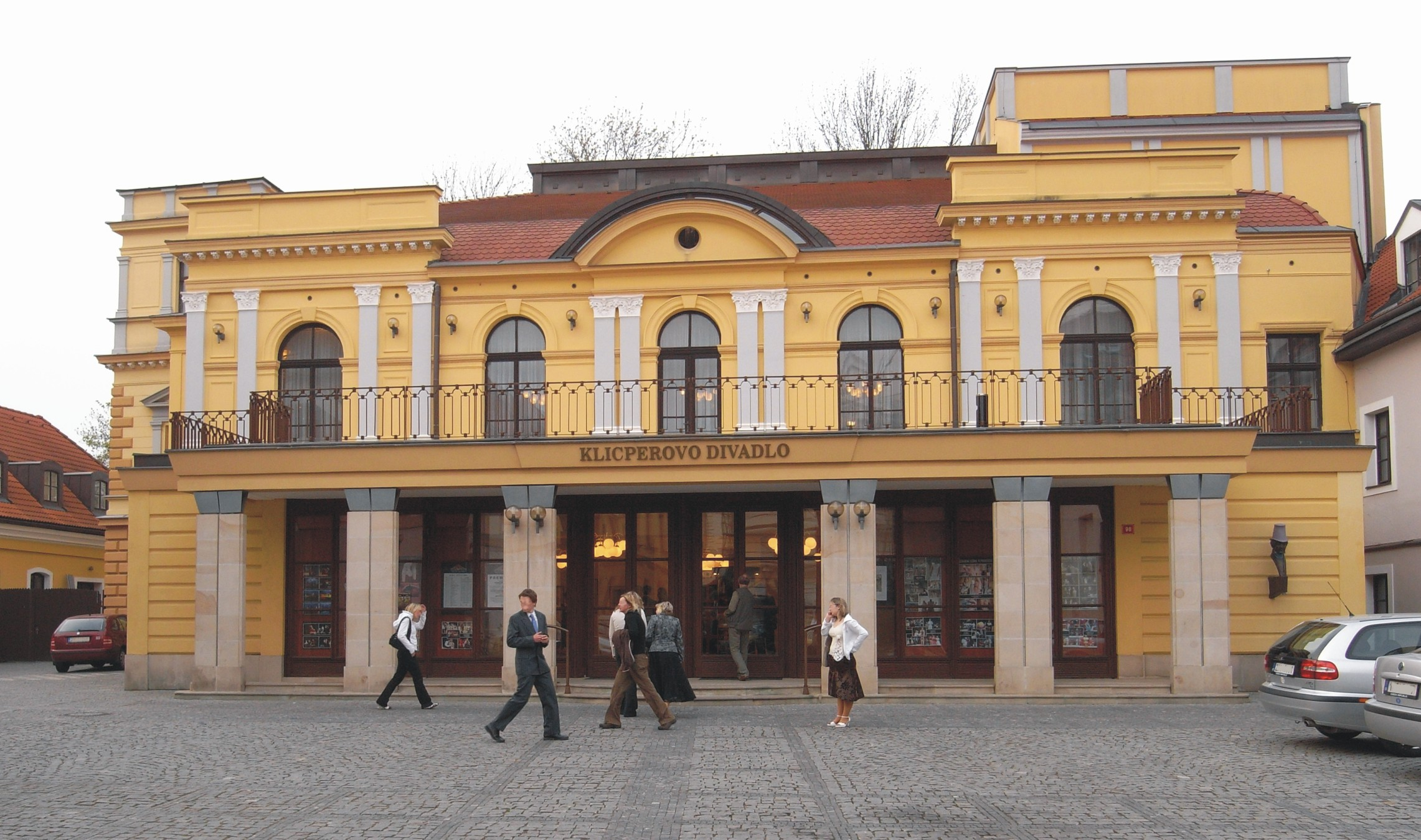 Klicperovo Theatre of Hradec Králové (Czech Republic)